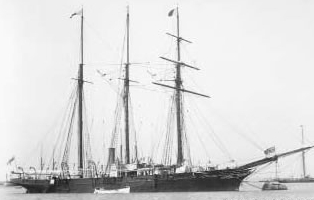 Photograph of British survey ship HMS Waterwitch